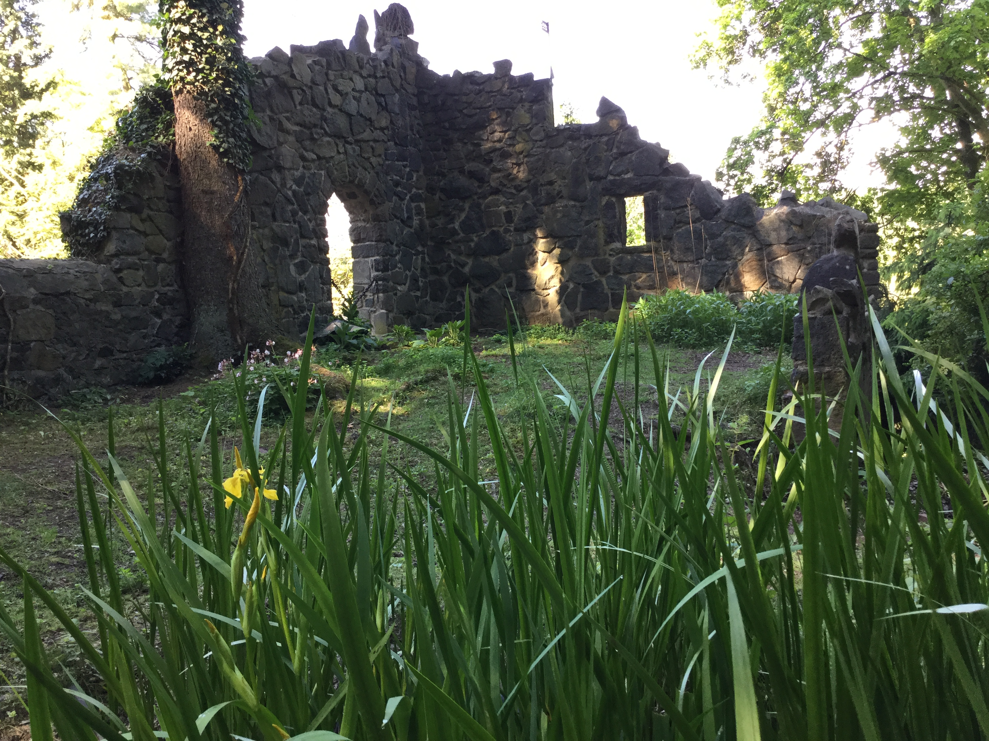 Ruin in the park of Villa Haas in Sinn Germany.